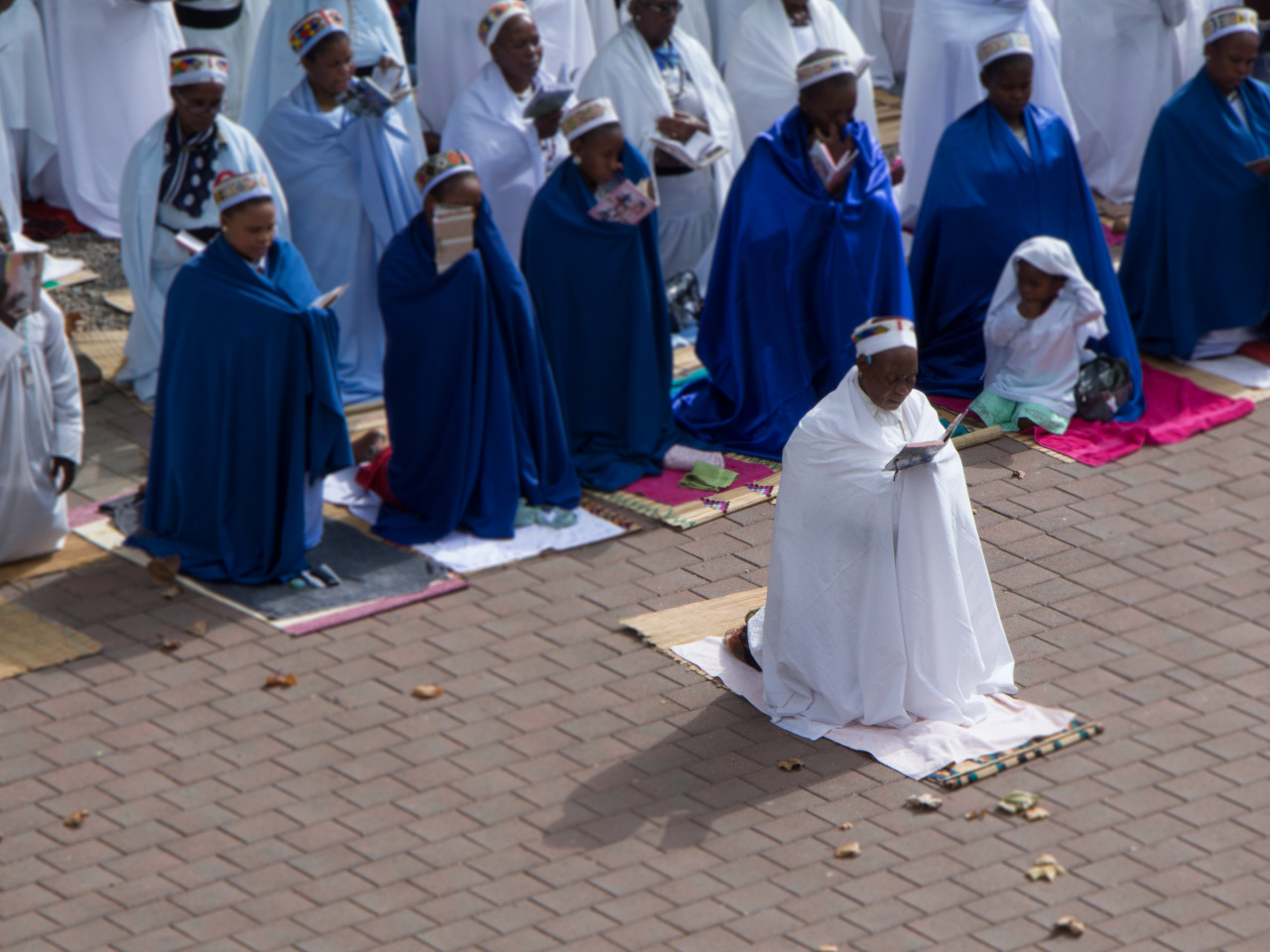 This is an image with the theme "Africa on the Move or Transport" from: South Africa